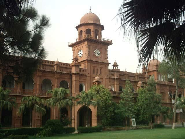 The Punjab University Old Campus Building aka Allama Iqbal Campus Picture taken by Pale blue dot on June 21, 2004.